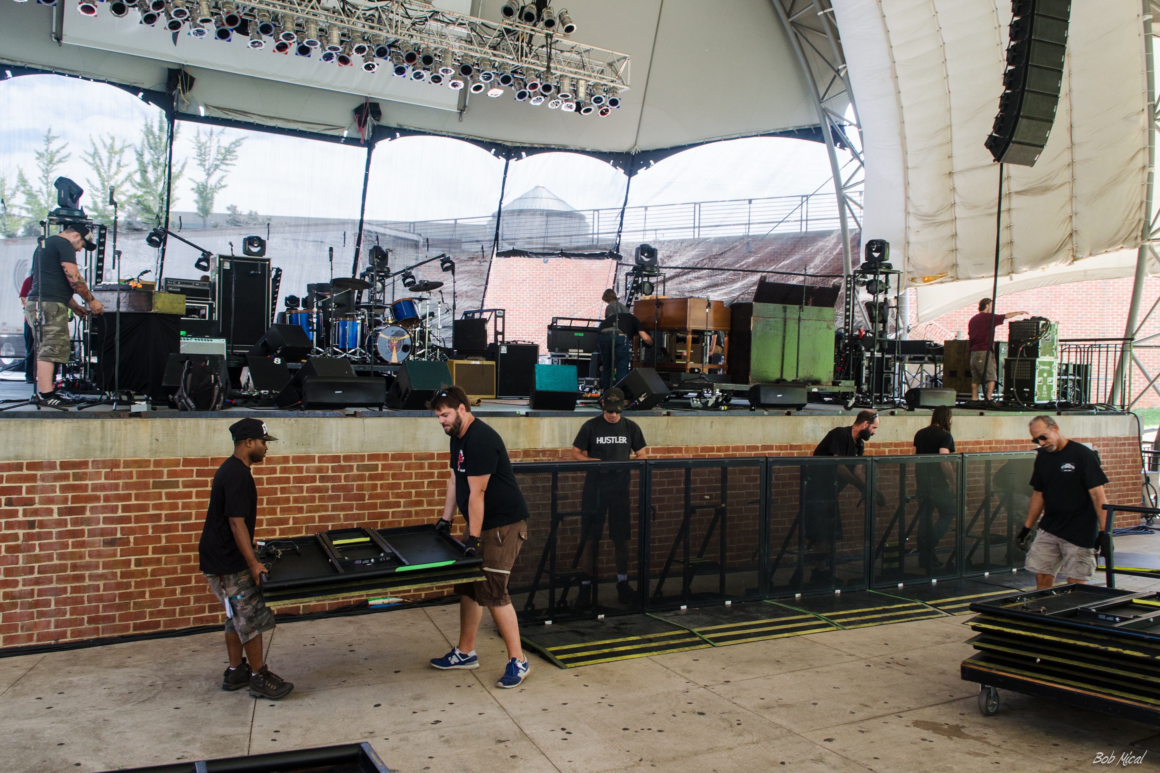 Roadies setting up for Grace Potter and the Nocturnals at nTelos Pavilion.